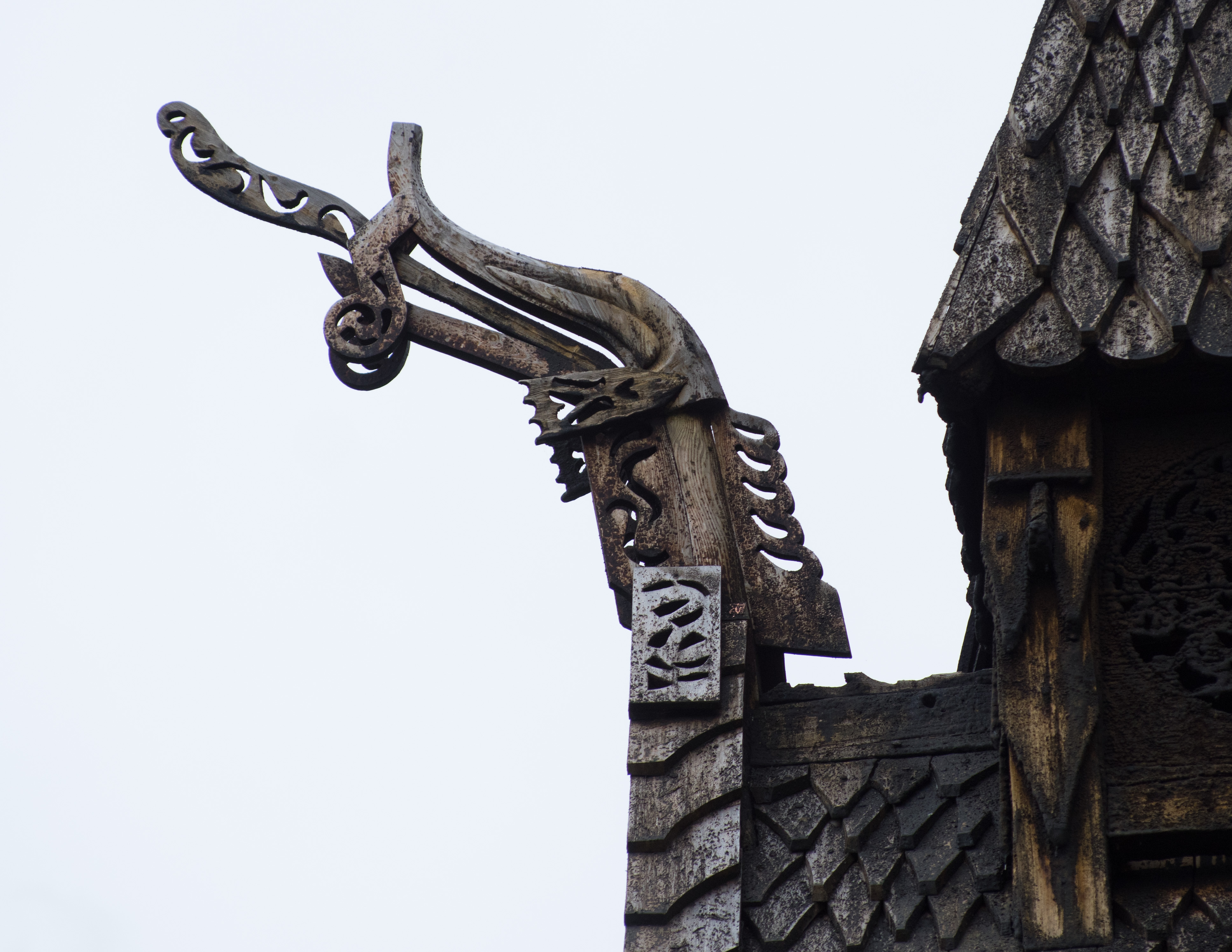 Borgund Stave Church (Norwegian: Borgund stavkyrkje) is a stave church built sometime between 1180 and 1250 AD, located in the village of Borgund in the municipality of Lærdal in Sogn og Fjordane county, Norway.